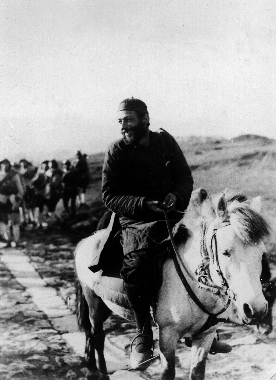 Bosshardt on horse following release from captivity 1936. Captured by the Red Army and on what became known as the "Long March".